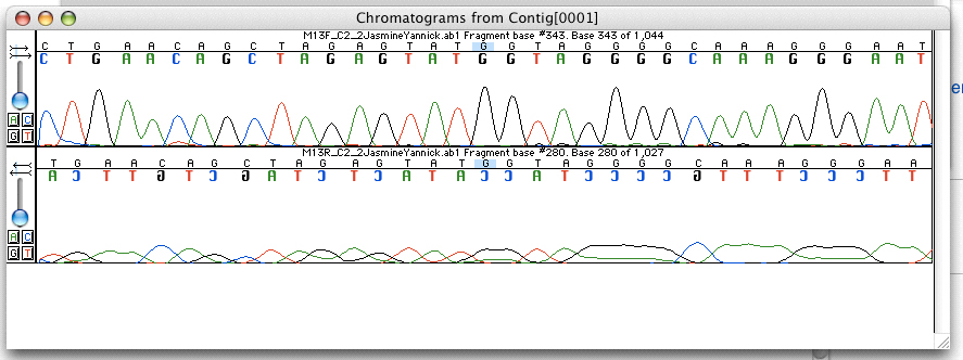 screen shot of a chromatogram